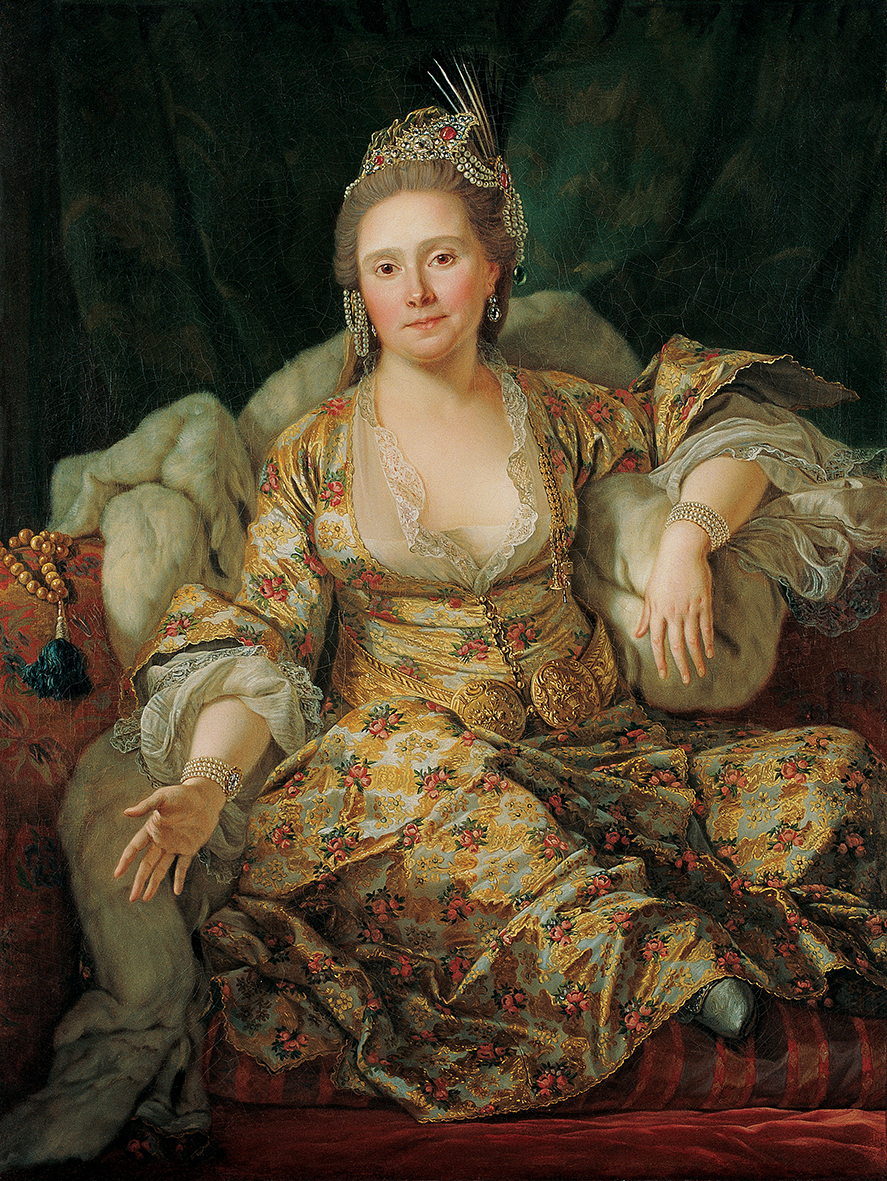 Annette Comtesse de Vergennes, who was the wife of the French Ambassador to the Sublime Porte, in Oriental Costume.